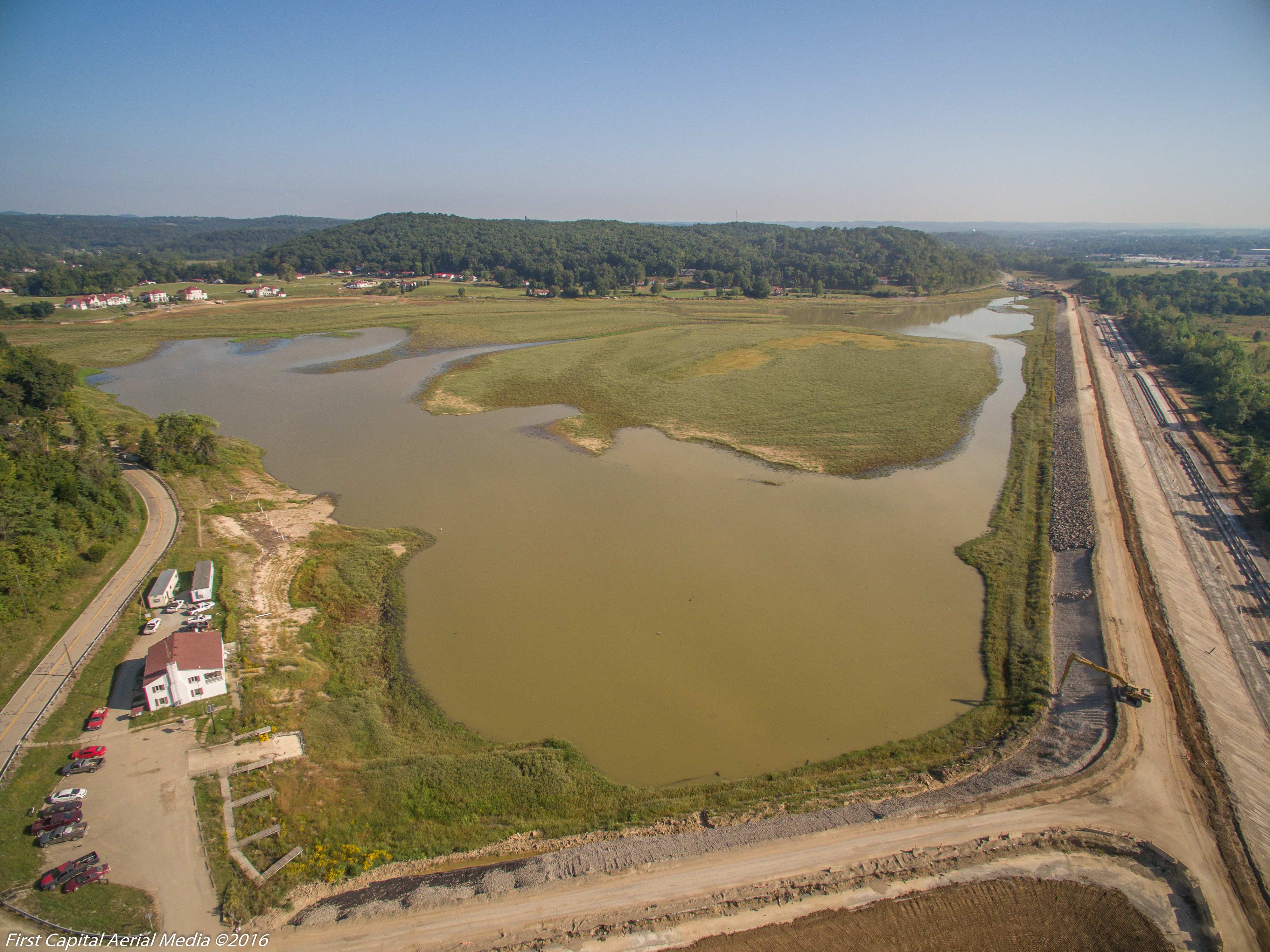 a look at the lake level low during the repairs of the damn.